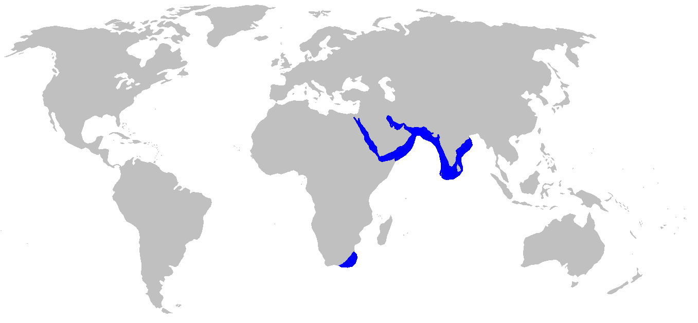 Distribution map for Mustelus mosis